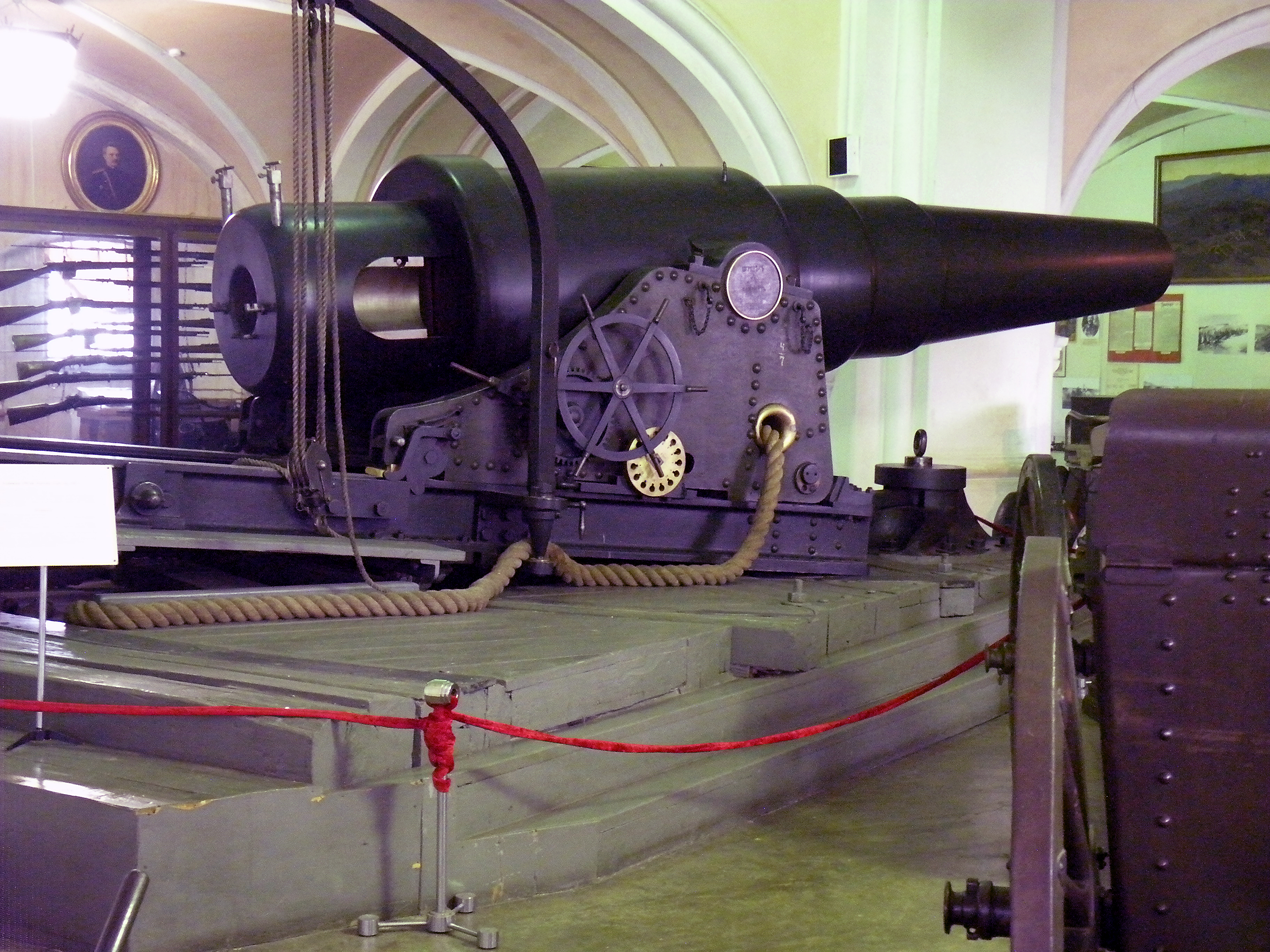 11 inch Pattern 1867 coastal gun displayed at the Artillery Museum in St. Petersburg